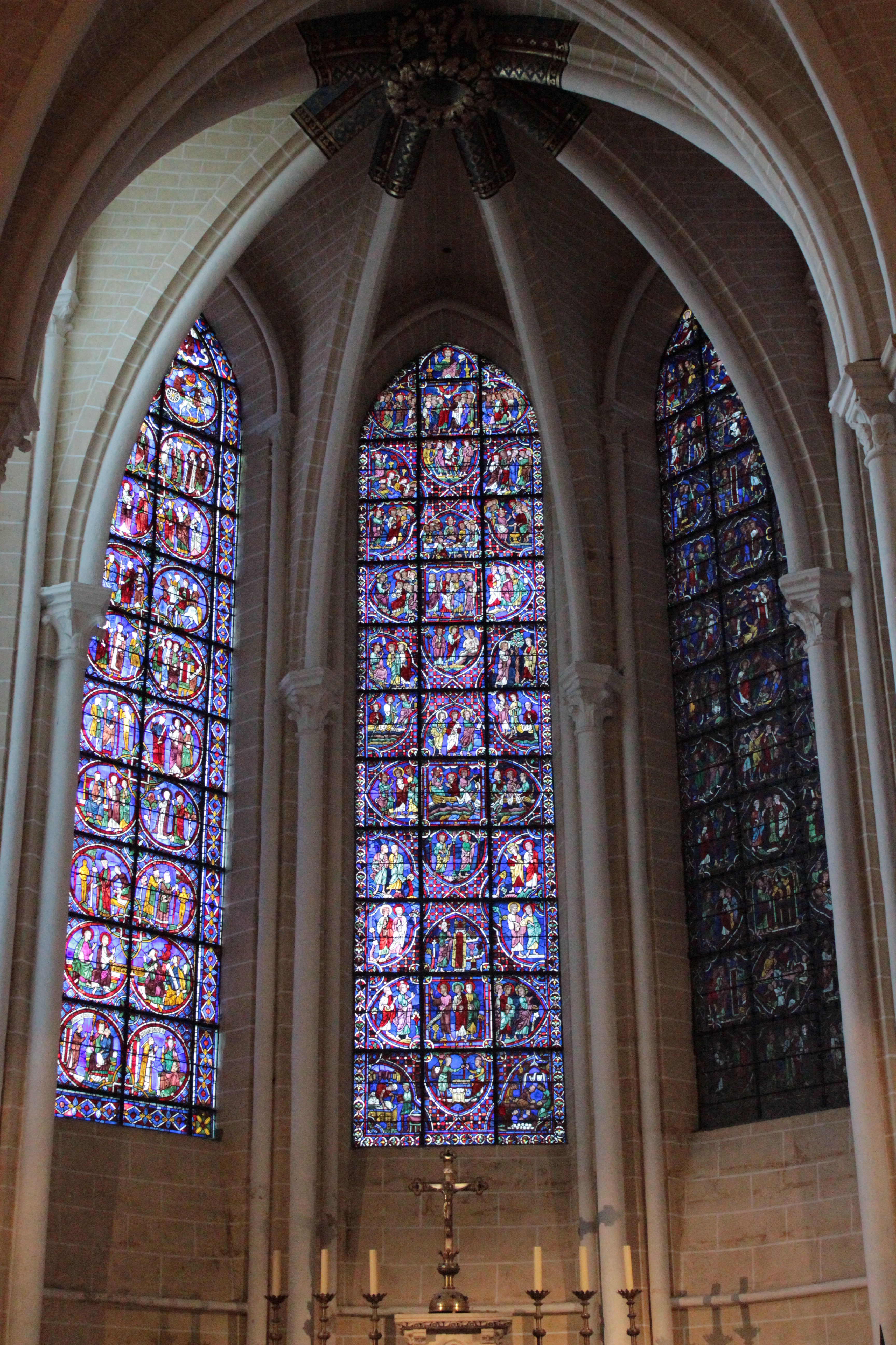 Vitrail de Chartre